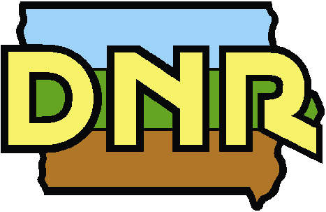 Iowa Department of Natural Resources logo